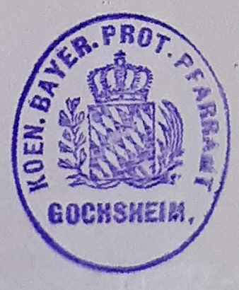 Seal of the Royal Bavarian Protestant Rectory of Gochsheim, 19th century